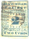 The two cent "Missionary" stamp of Hawaii, issued October 1, 1851.